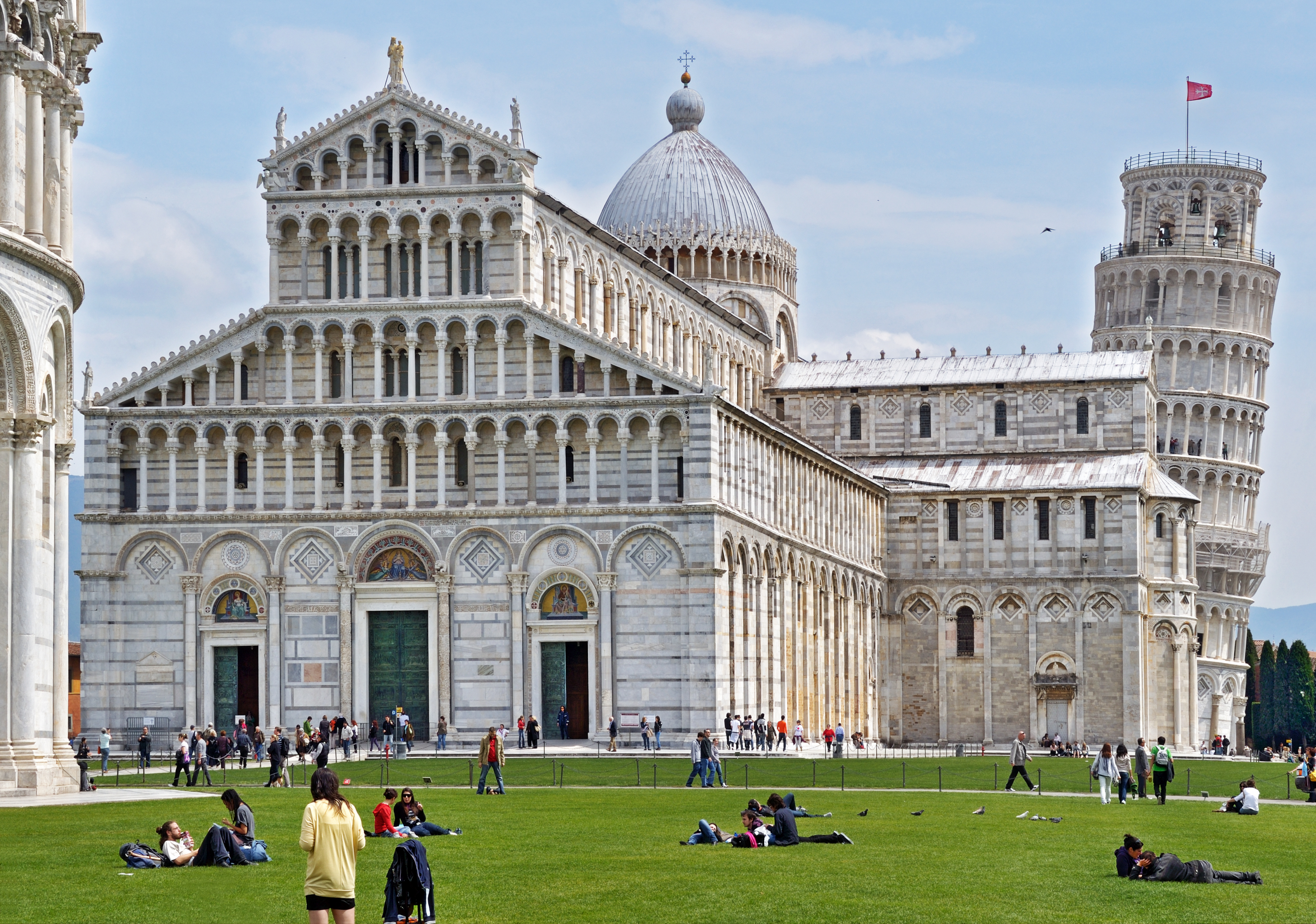 Piazza dei Miracoli - Pisa Cathedral and The Leaning Tower